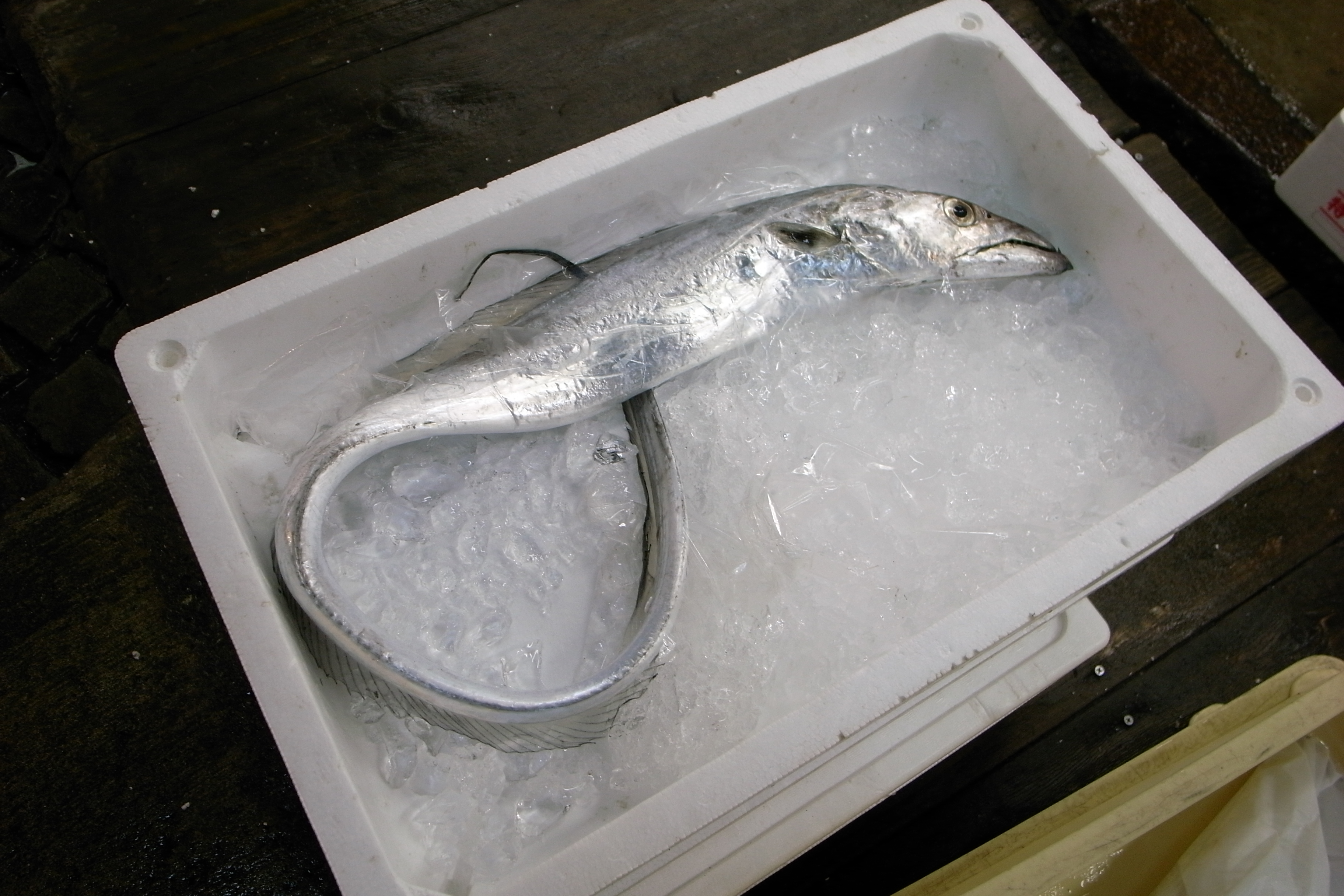 Largehead Hairtail a.k.a. Beltfish (太刀魚）.